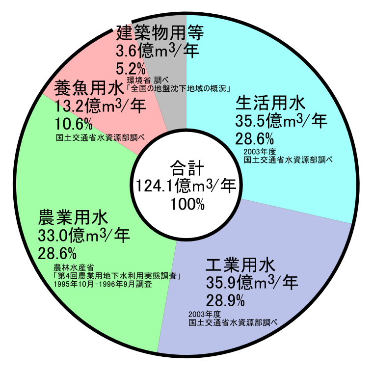 Groundwater useage in Japan J